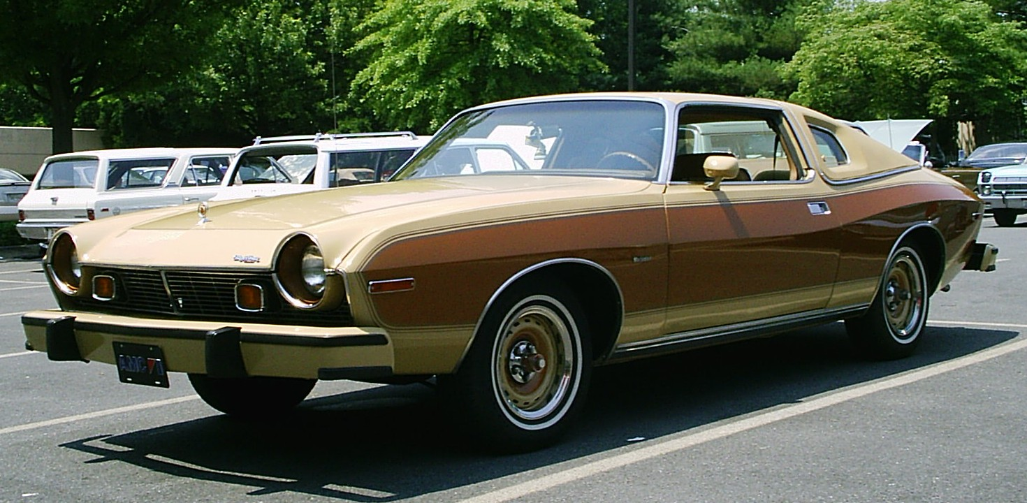 American Motors AMC vehicle - 1977 Matador Coupe - Barcelona edition.